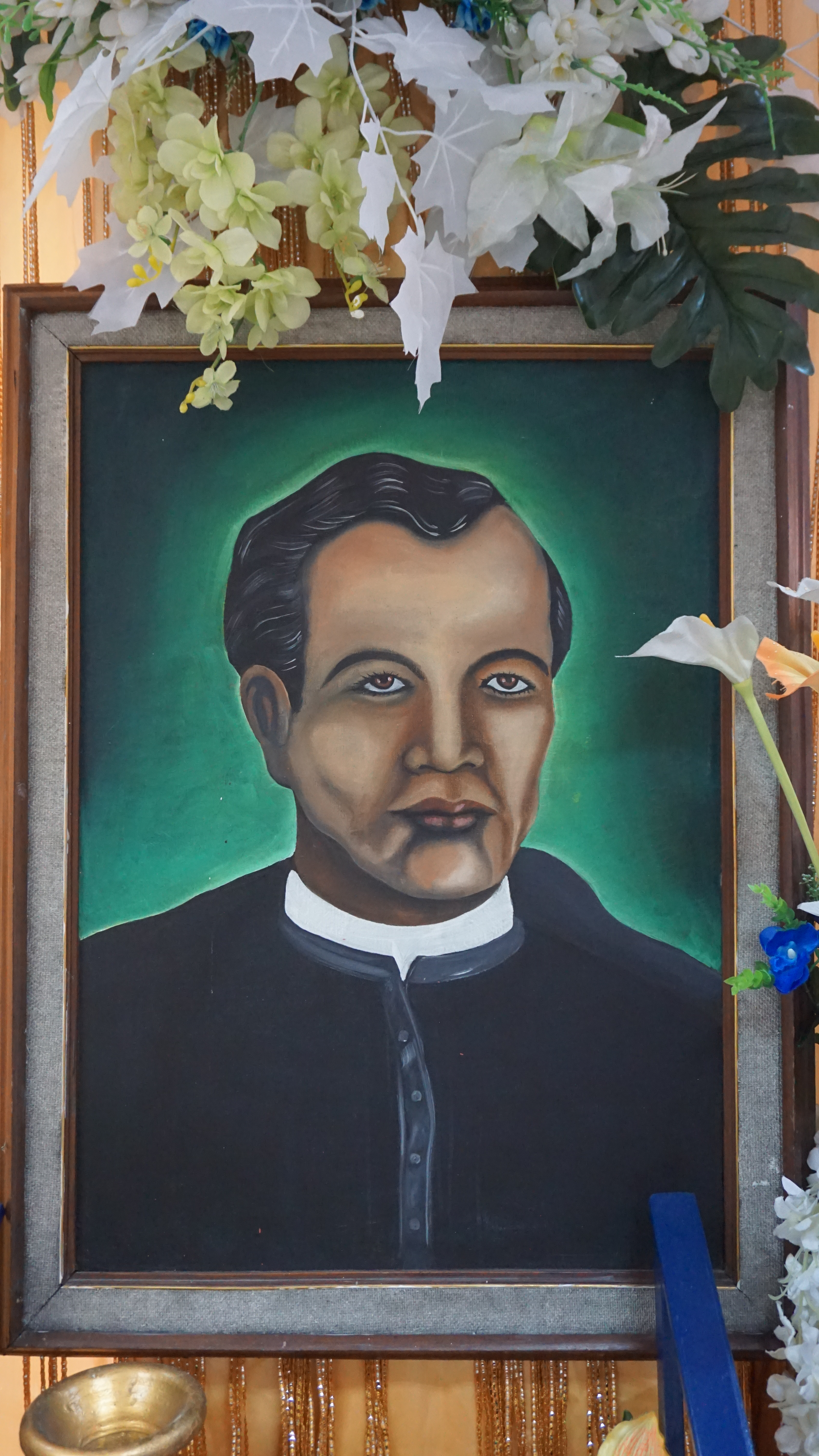 A portrait painting of Pedro Peláez located at Pedro Peláez Elementary School in Manila City, Philippines.